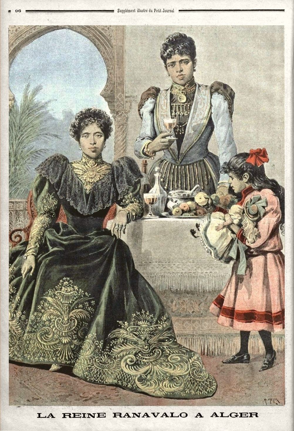 Magazine back cover of Le Petit Journal (March 19, 1899) showing Queen Ranavalona III in exile in Algiers, with her aunt Ramasindrazana and her niece Marie-Louise. The full-page colour illustration on the back cover of this issue is entitled "La Reine Ranavalo à Alger" ["Queen Ranavalona in Algiers"].